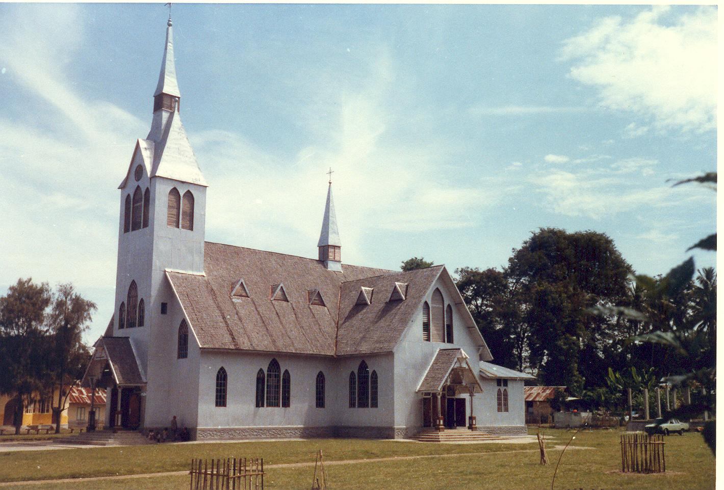 HKBP church in Balige, Sumatera Utara